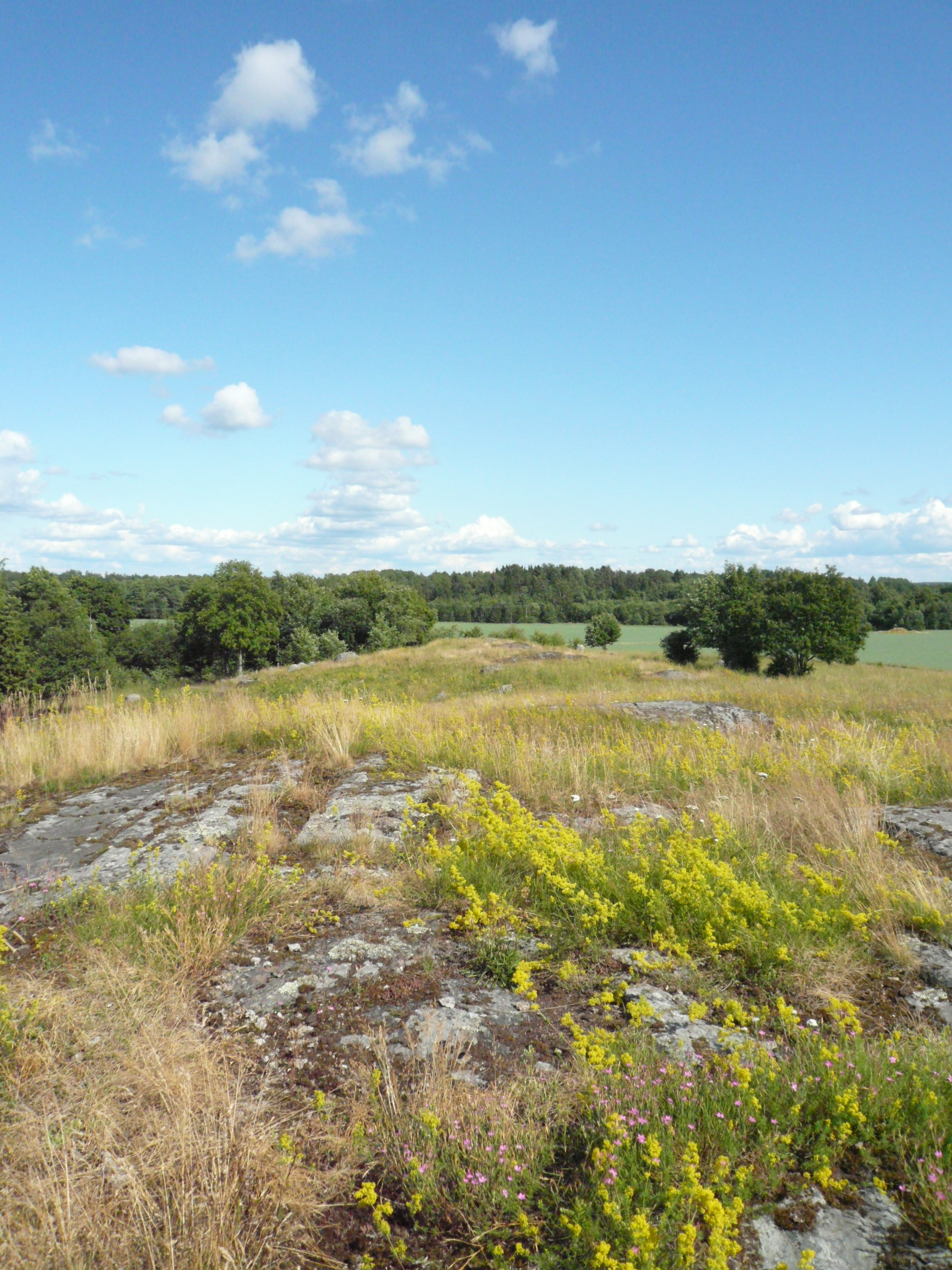 Kiettara Iron Age Cemetery at Retulansaari Island, Tyrväntö, Hattula, Finland.